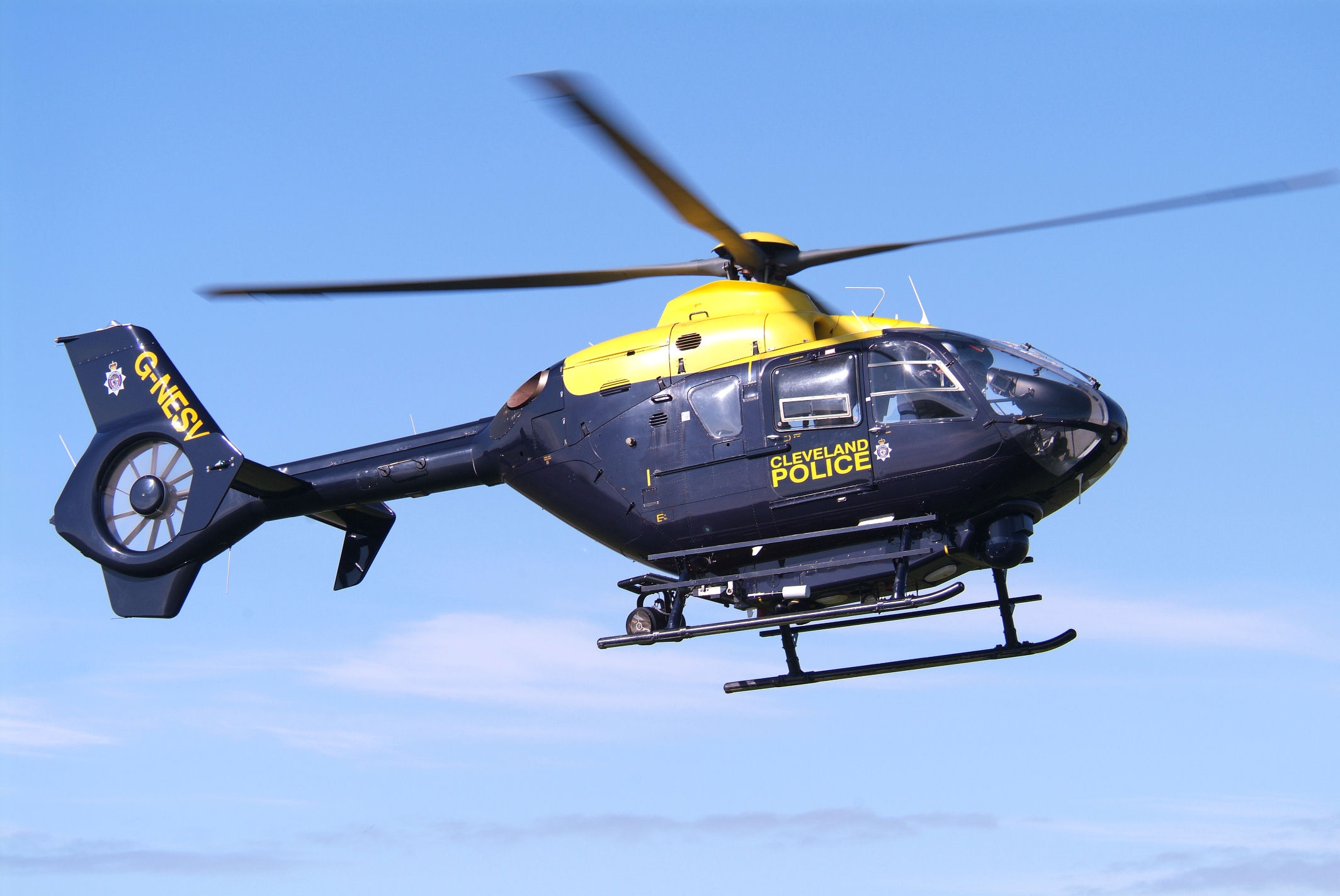 Eurocopter Ec-135 T1 G-NESV